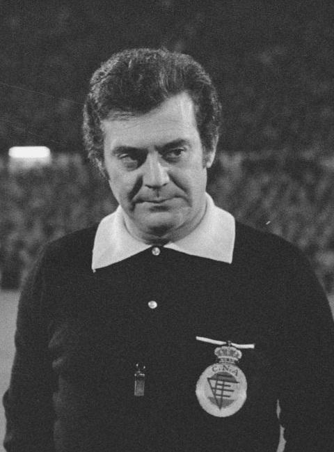 Angel Franco Martínez in 1976.